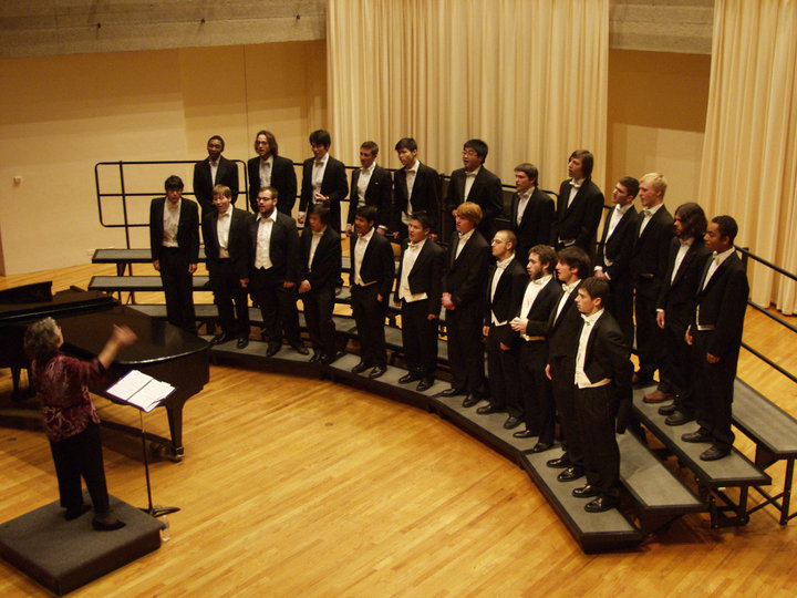 The Amherst College Glee Club as they appeared in 2009